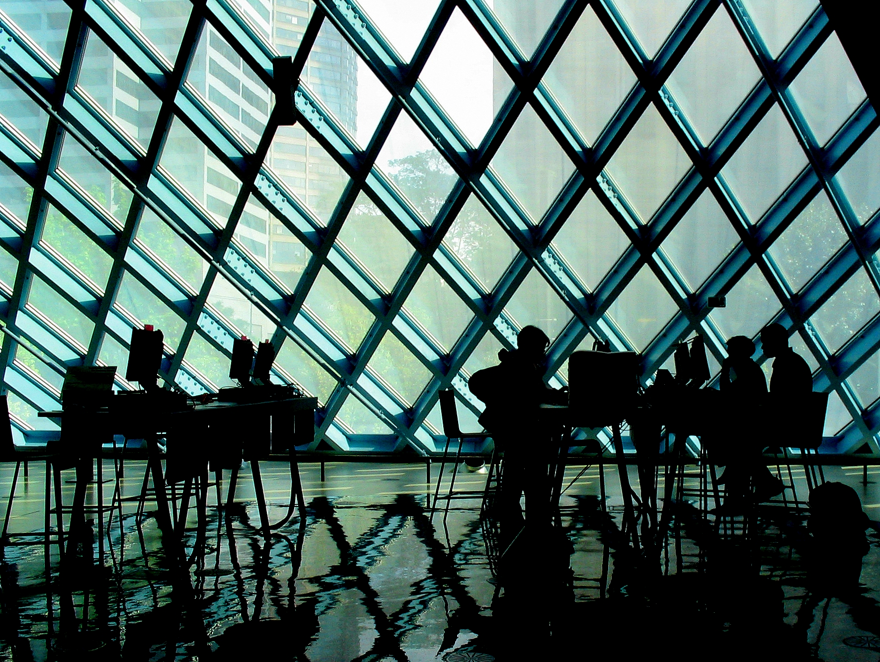 seating and tables at Seattle Public Library, Washington